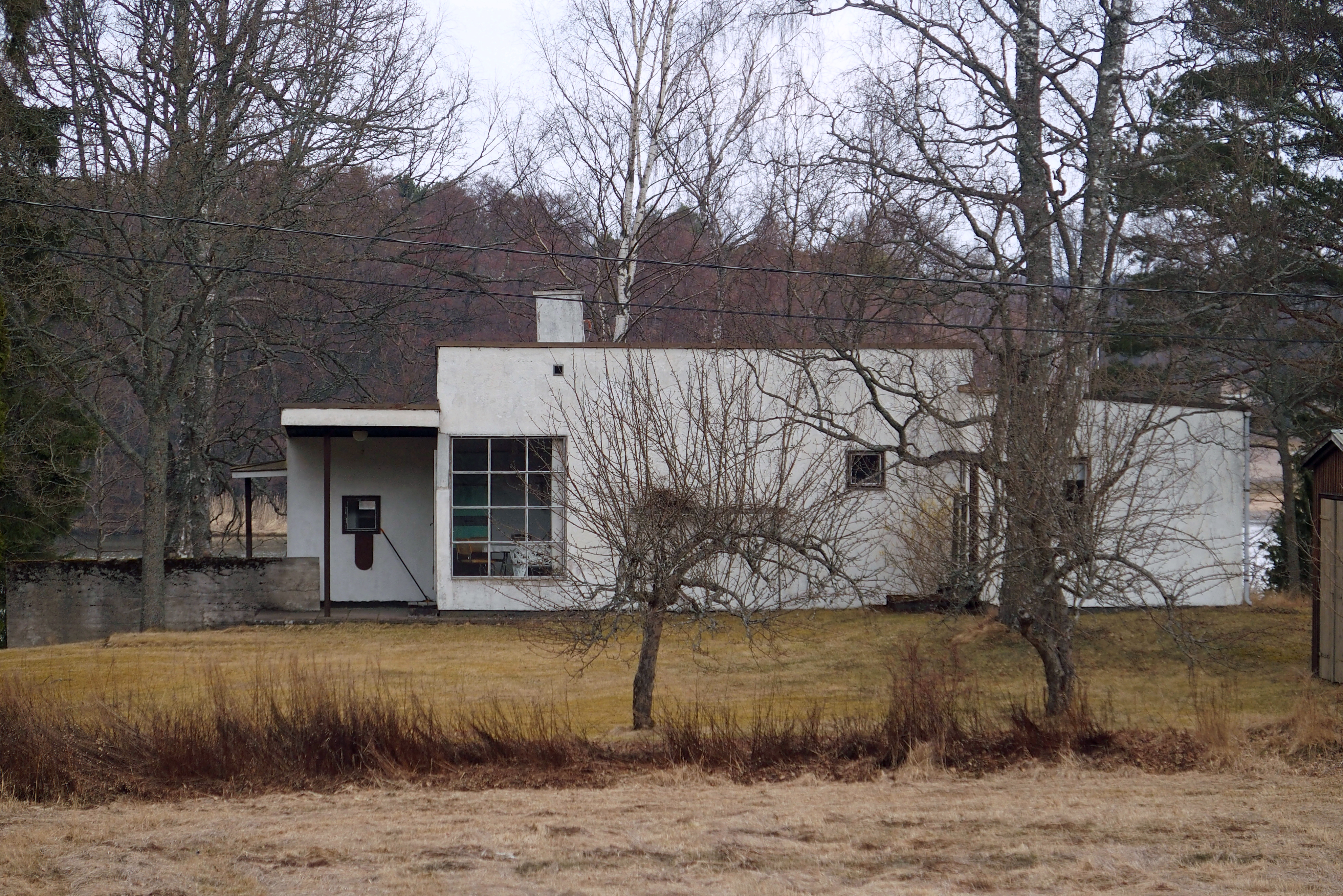 Architect Erik Bryggman, 1933. Private property.